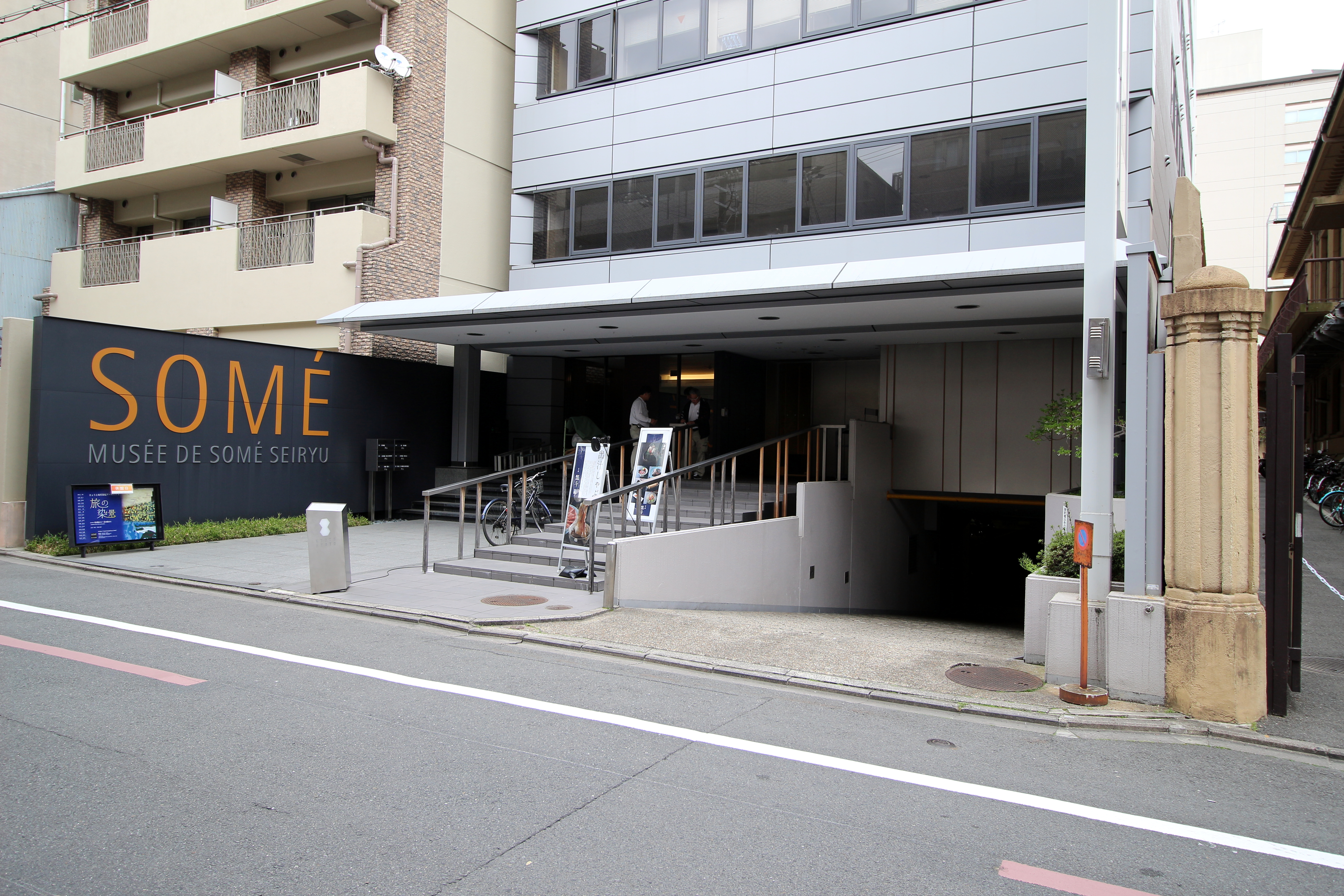 Dye museum Seiryu in Kyoto, Japan.